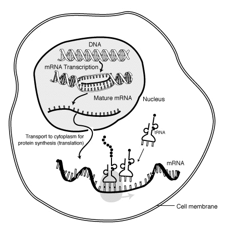 Illustration of Transcription and Translation: In the nucleus DNA is trans-scripted to mRNA. Then a ribosome, the mRNA and lots of tRNAs, each bound to an amino acid), interact to produce a peptide (or a protein) molecule.)